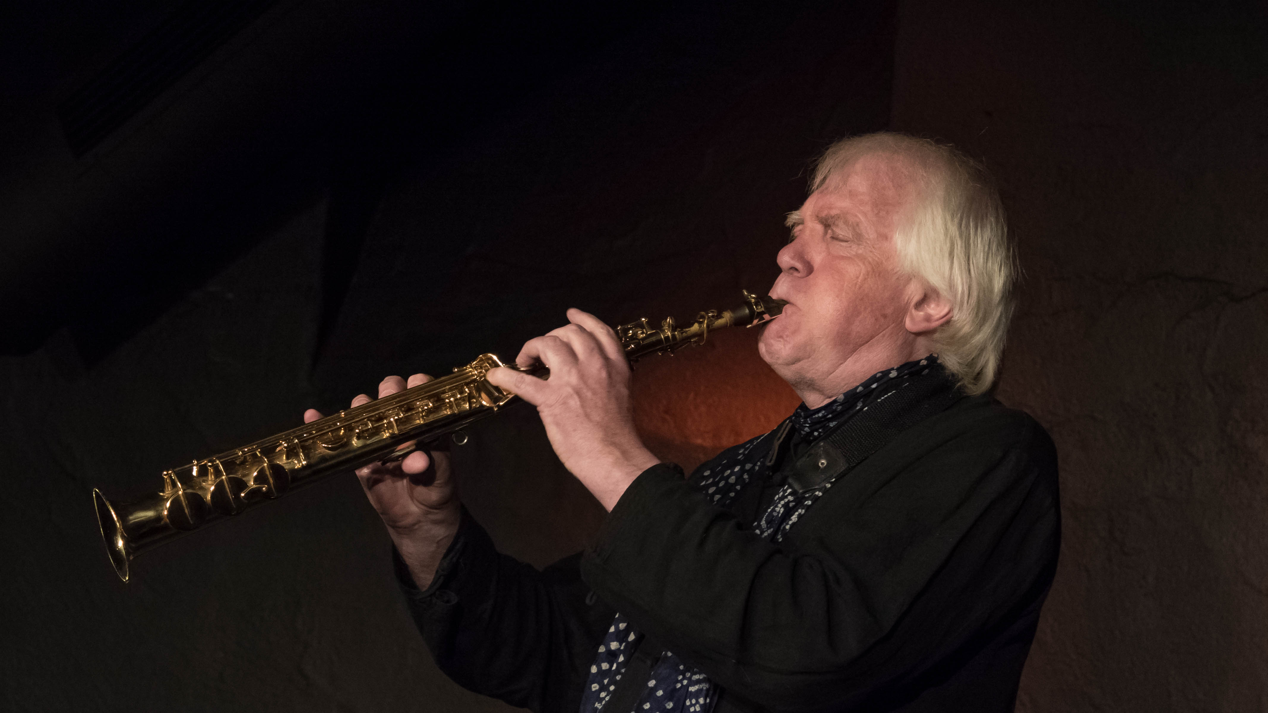 at Gewölbekeller Donaueschingen, GErmany